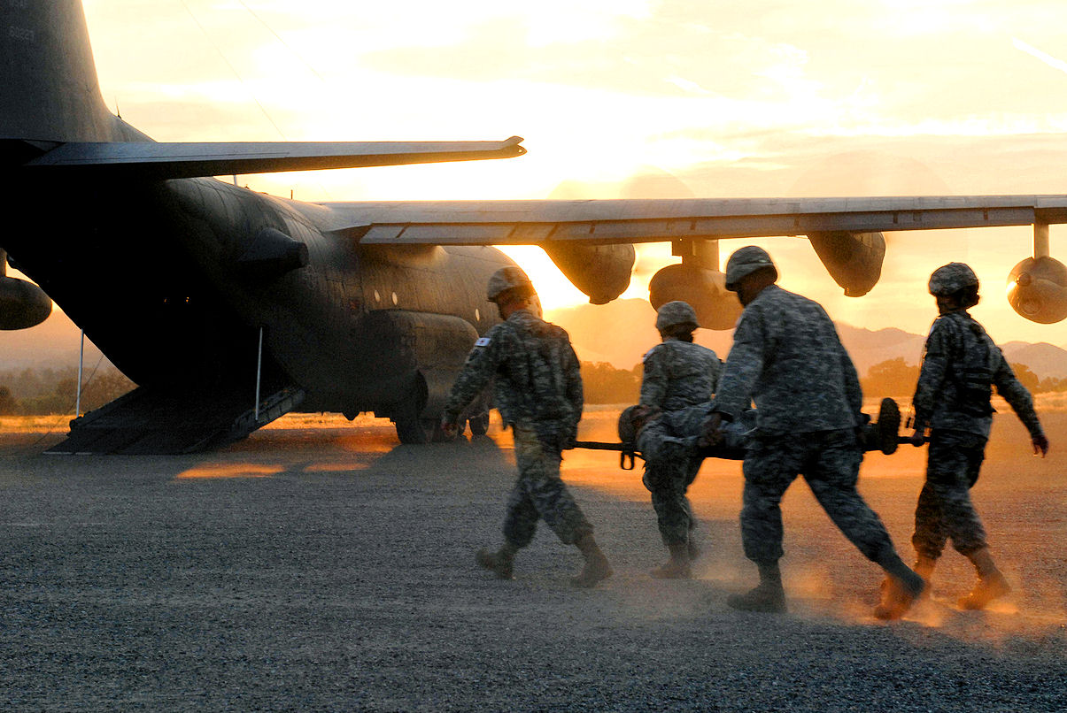 FORT HUNTER LIGGETT, Calif. – Members of the 5502nd U.S. Army Hospital, in Denver,, Colo., load a Soldier acting as a casualty onto a MC-130P cargo plane, flown by members of the California Air National Guard’s 130th Rescue Squadron, based at Moffett Federal Airfield, Calif., during medical evacuation training at Combat Support Training Exercise-91, July 11, 2012. (U.S. Army photo by 1st Sgt. Larry J. Mears, 343rd Mobile Public Affairs Detachment)